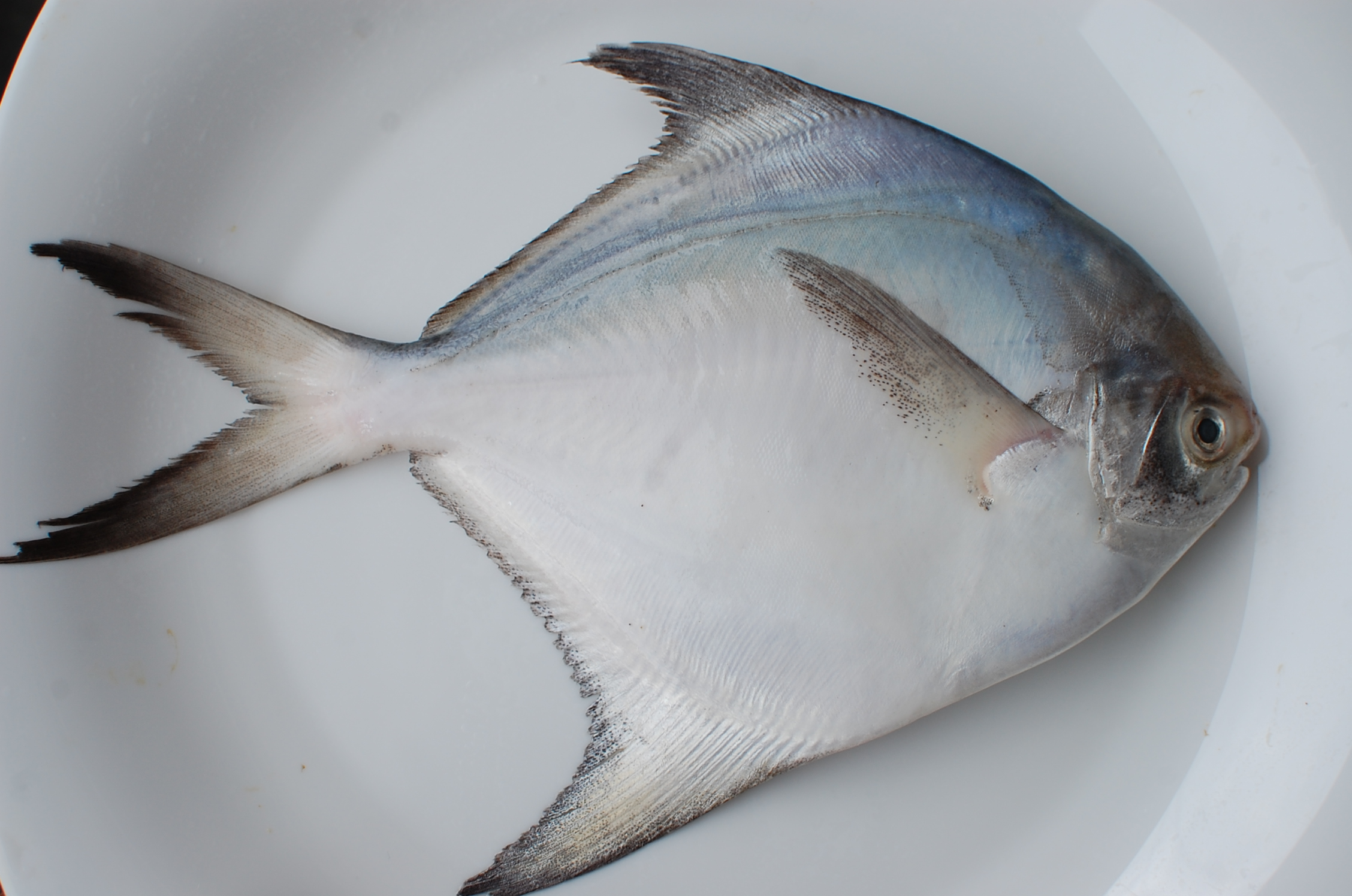 White Pomfret